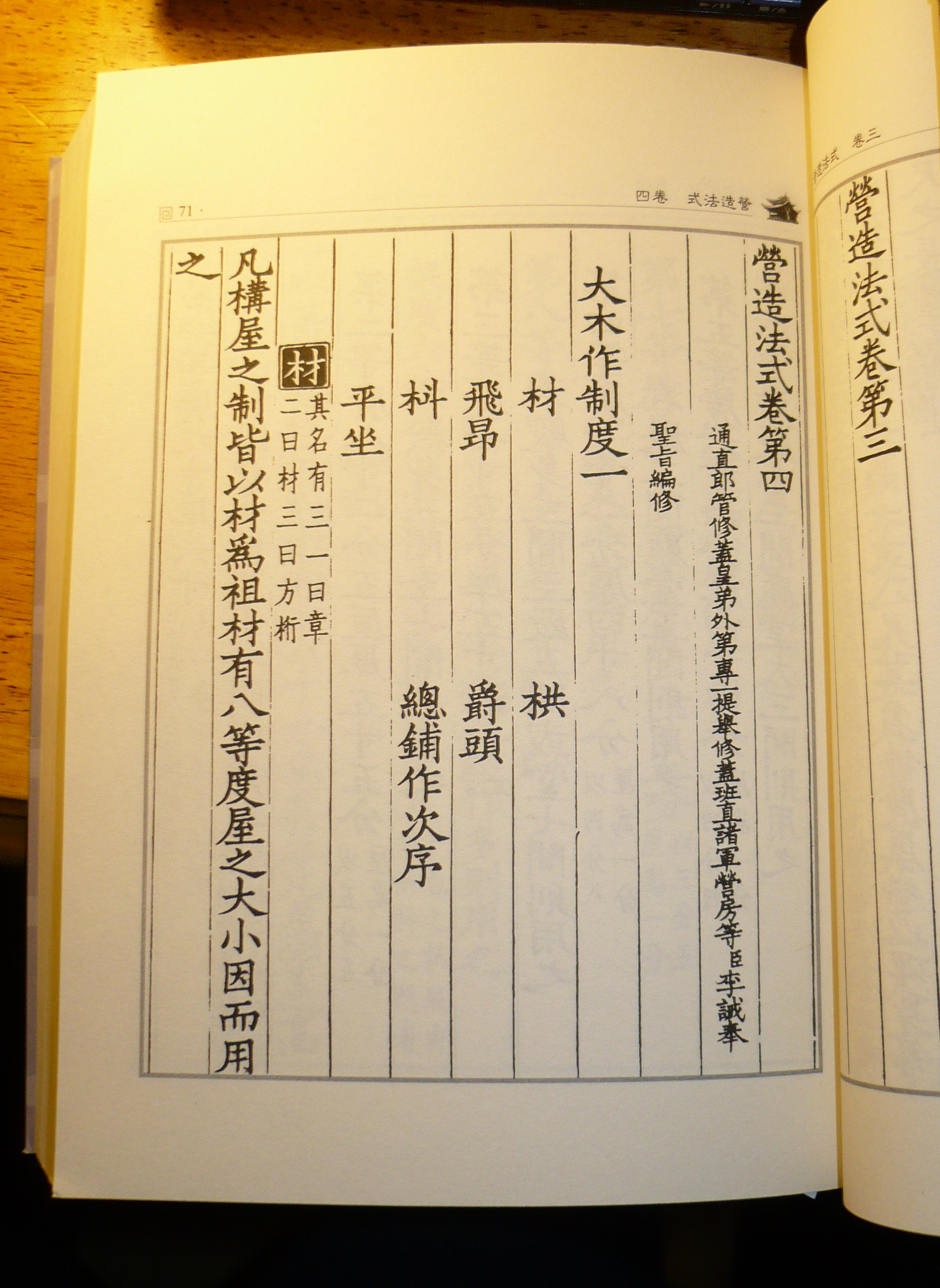 Yingzao Fashi Major Carpentry